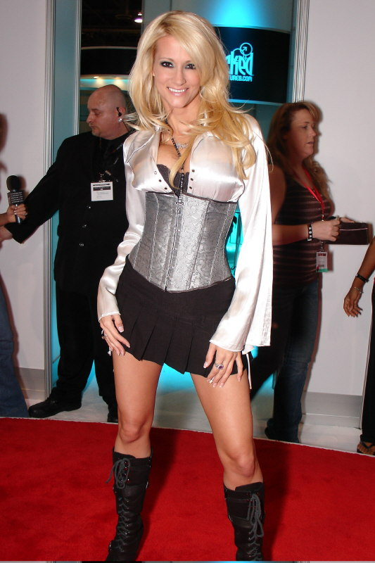 Jessica Drake